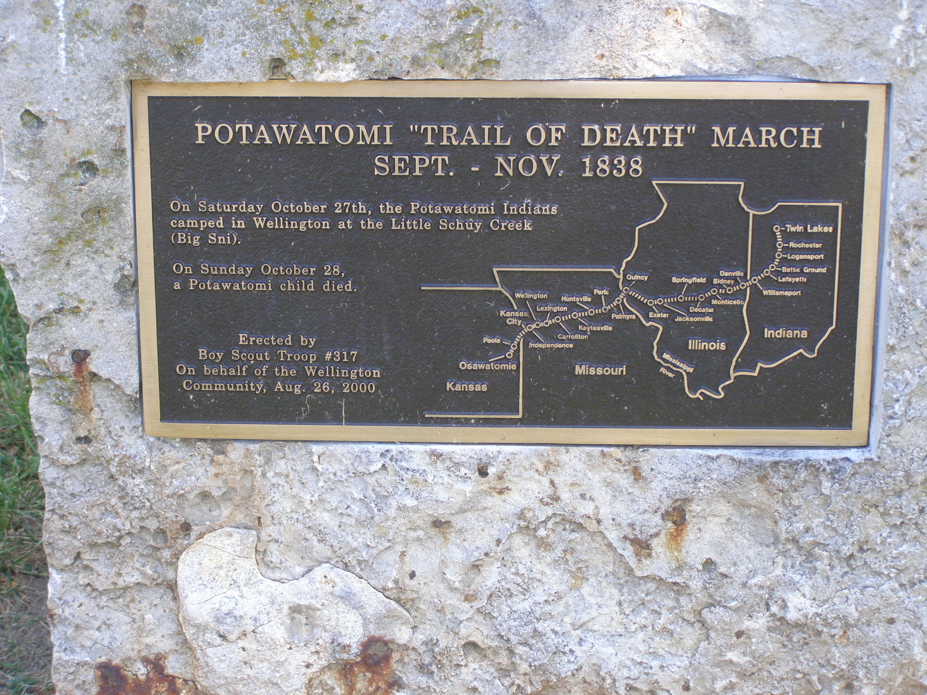 Fifth Street or Missouri 224 Along the Missouri River in Wellington, Missouri is the route of the Potawatomi Trail of Death.